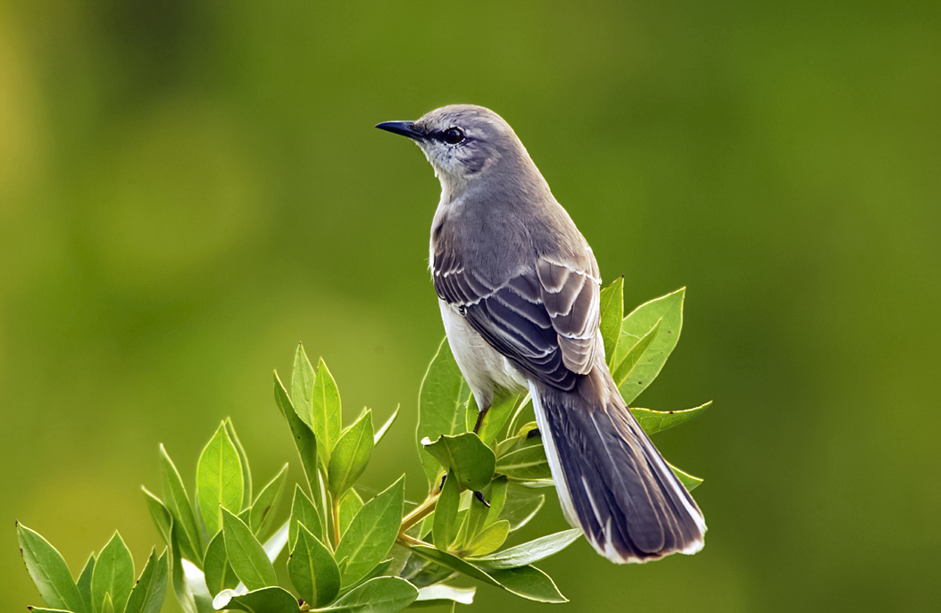 Northern mockingbird (Mimus polyglottos)